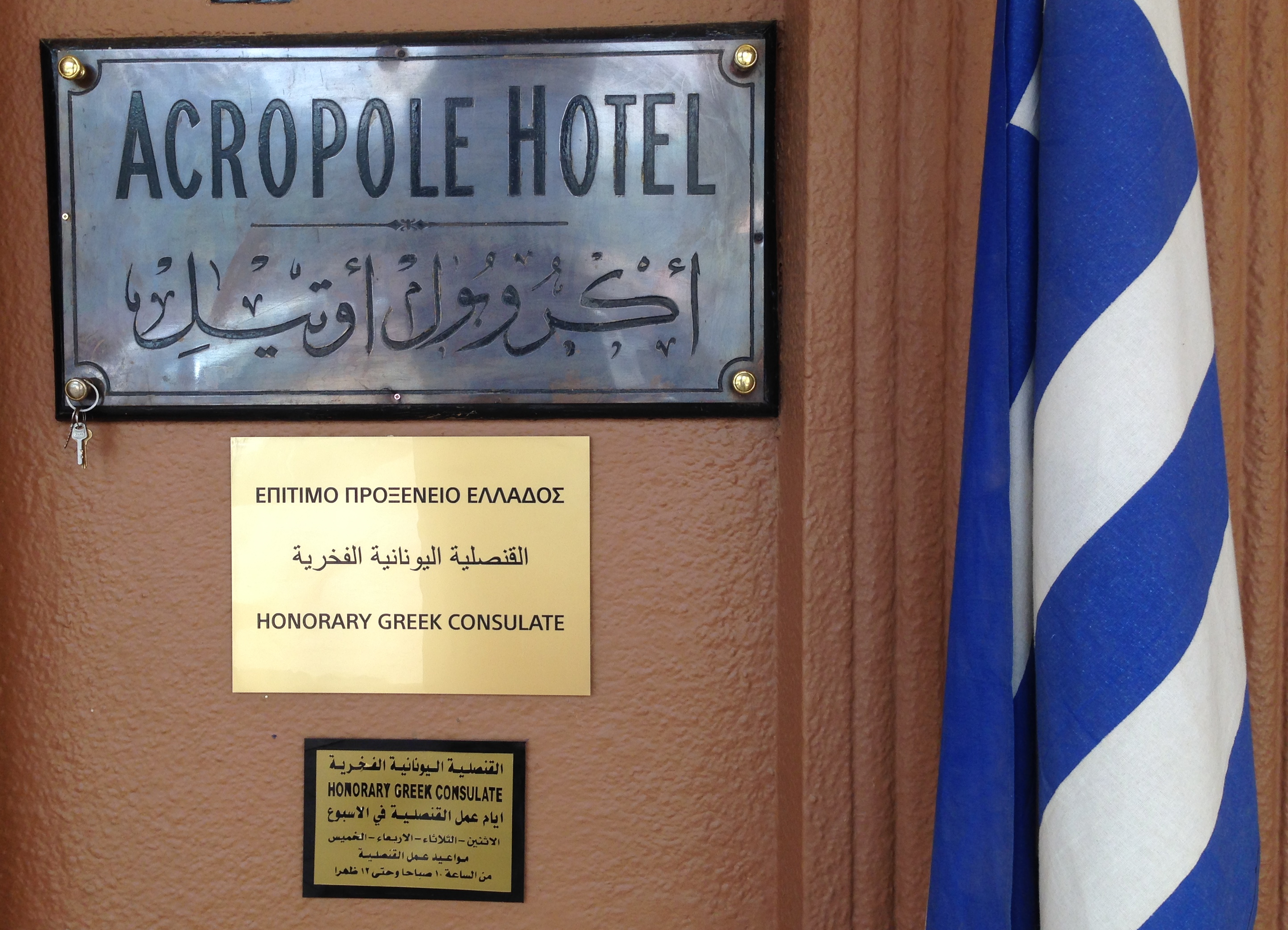 The Greek Honorary Consulate at the Acropole Hotel in Khartoum, Sudan. The Greek Embassy was closed due to austerity measures in 2015.